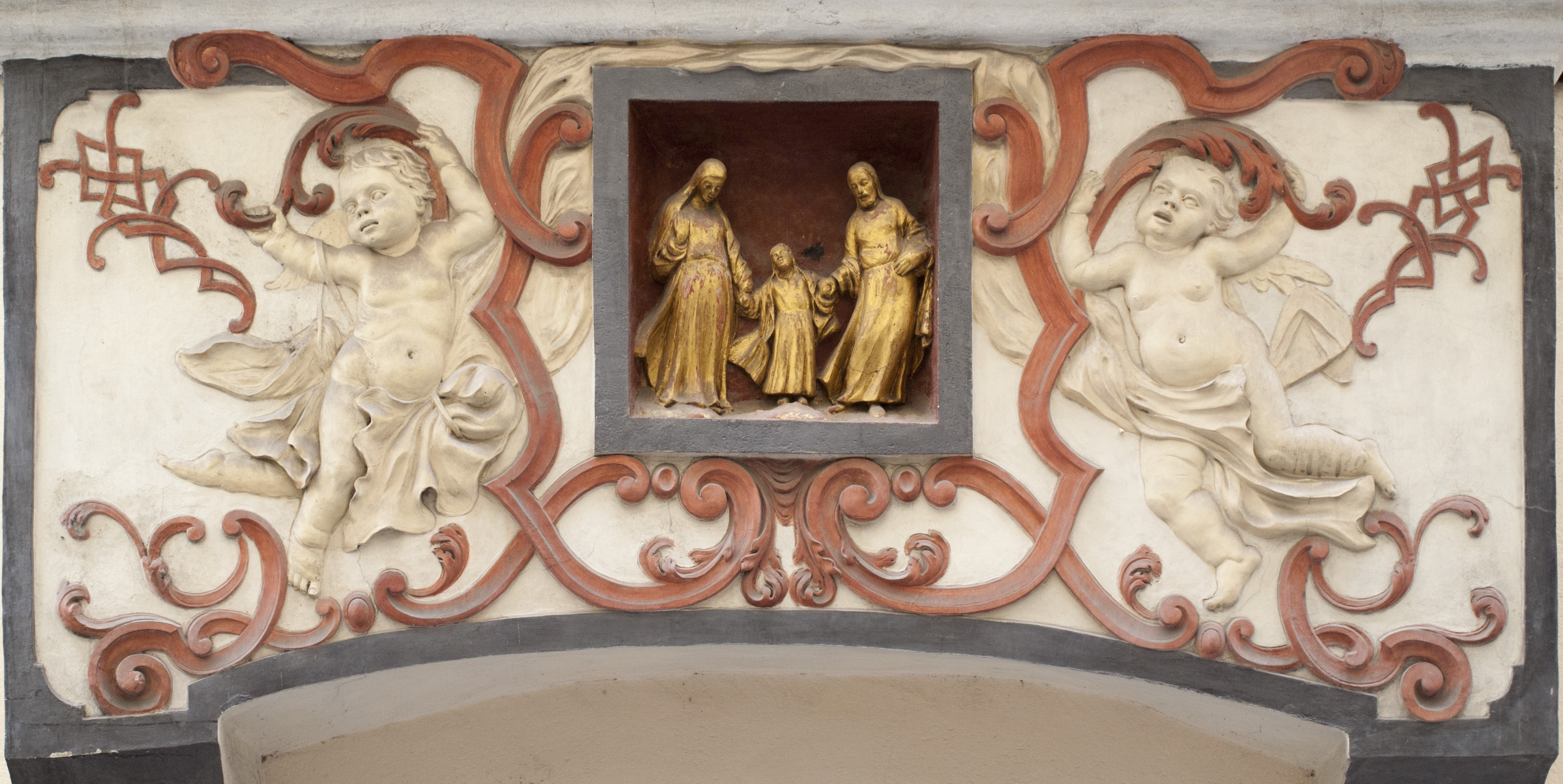 Apartmenthouse, Vienna, Naglergasse 19